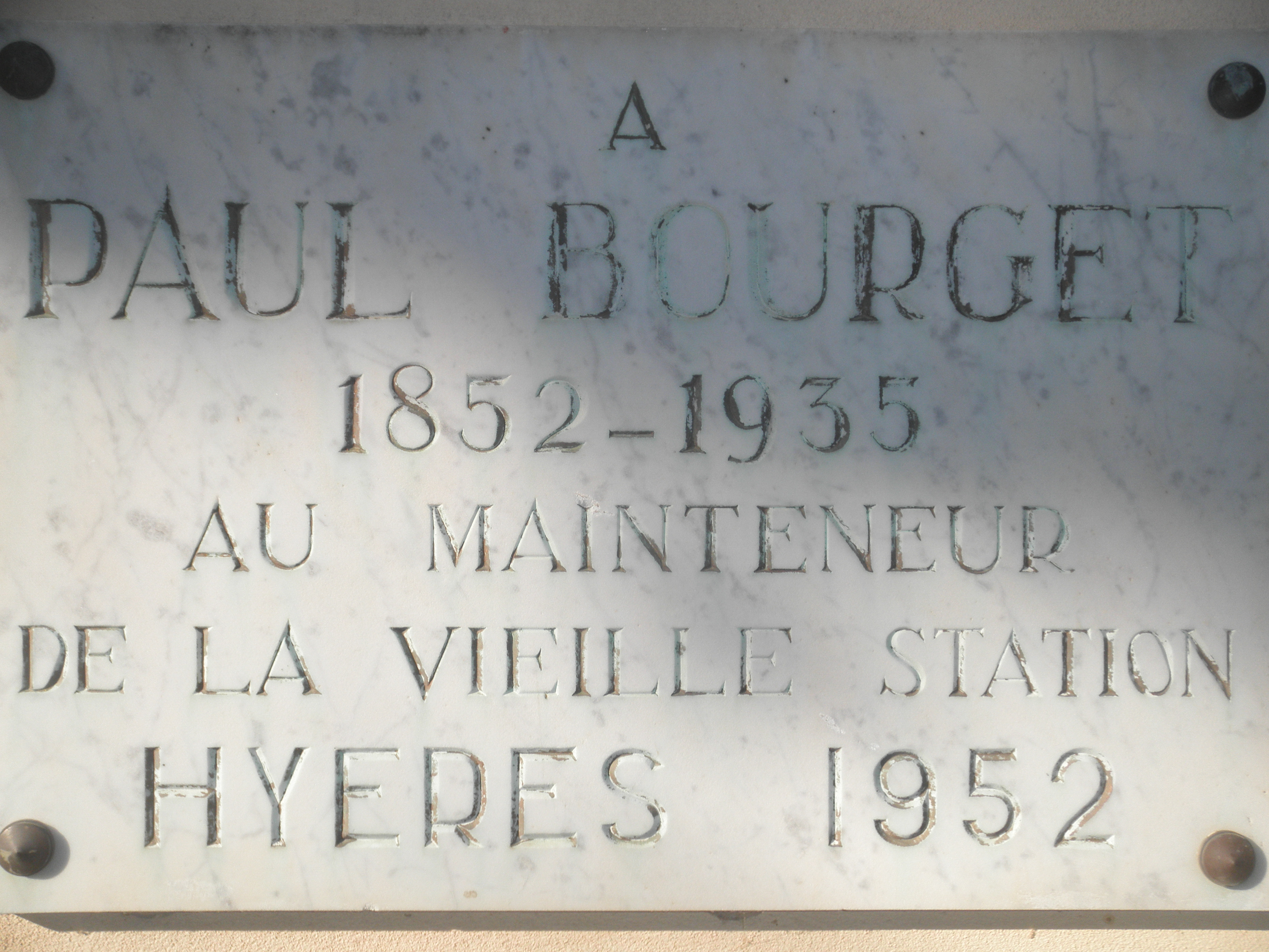 plantier